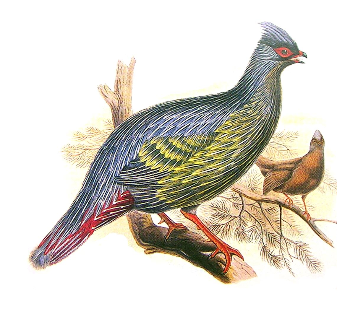 Ithaginis cruentus, Blood pheasant